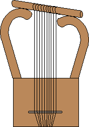 Illustration of a kinnor from the Old Testament period. Based on ancient artifacts and artistic representations.